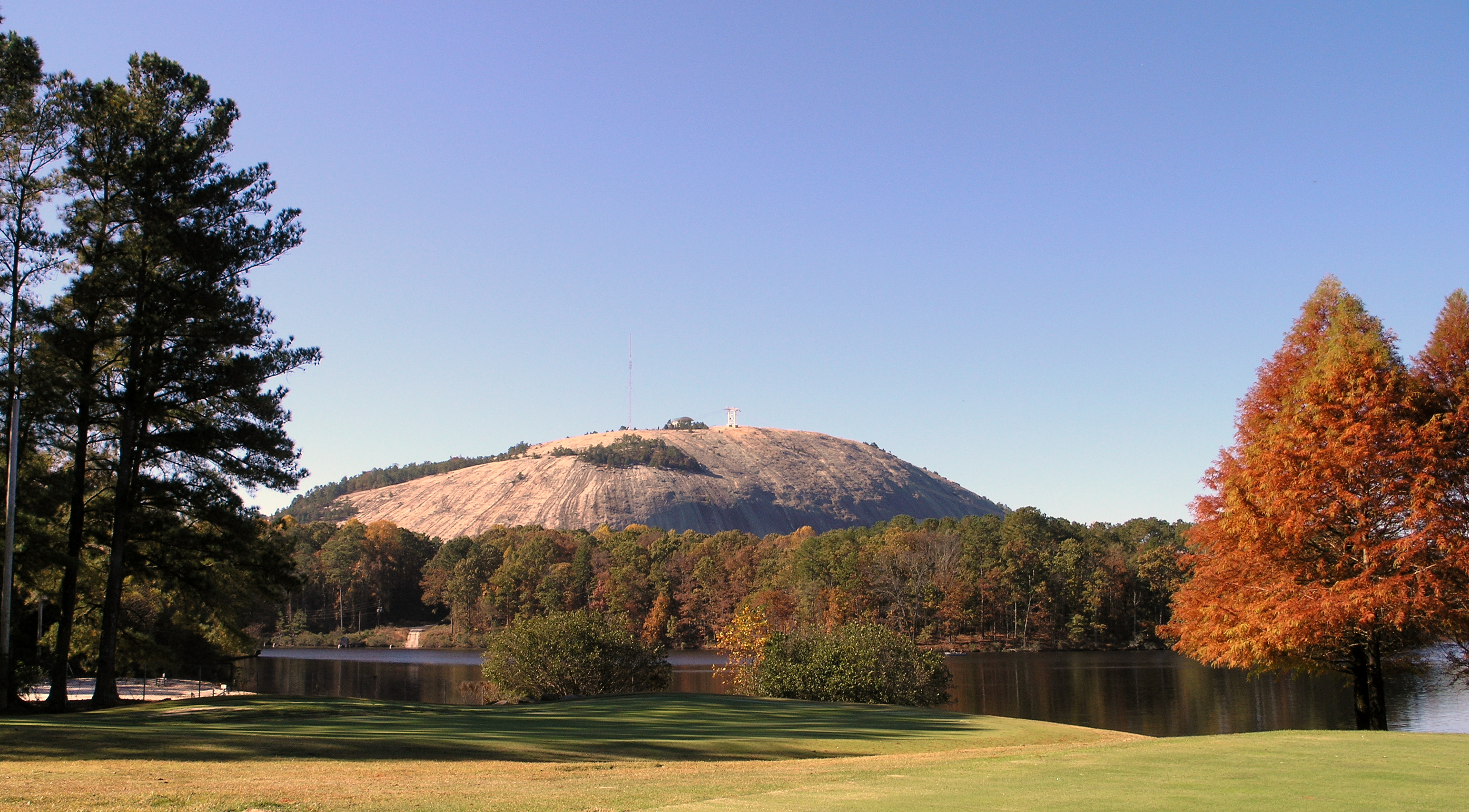 Stone Mountain Historic District